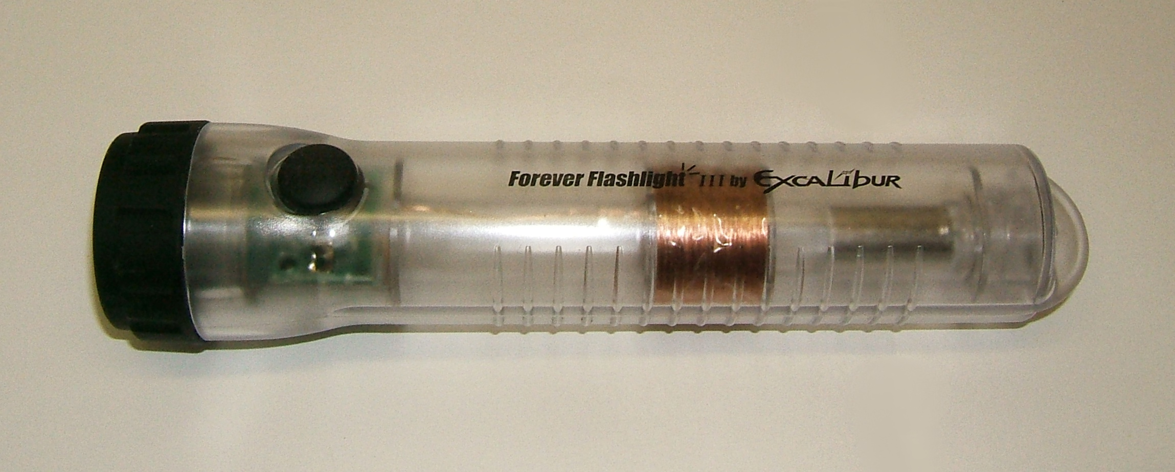 A linear induction or "shaking" flashlight, powered by muscle power so it doesn't require batteries. It contains a linear electric generator which generates electric current when the flashlight is shaken lengthwise. The current charges a batterylike "ultracapacitor", which provides energy to power the LED lamp bulb. The linear generator consists of a coil of wire (visible in center of tube) and a cylindrical neodymium magnet (to right of coil) which slides in a tube through the center of the coil when the flashlight is shaken. Its magnetic field induces current in the coil by electromagnetic induction when it slides through. 10 seconds of shaking provides about 2 to 3 minutes of light.